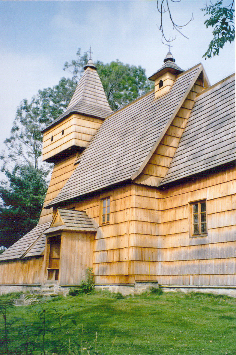 St. Martin Gothic church in Grywałd (Poland).